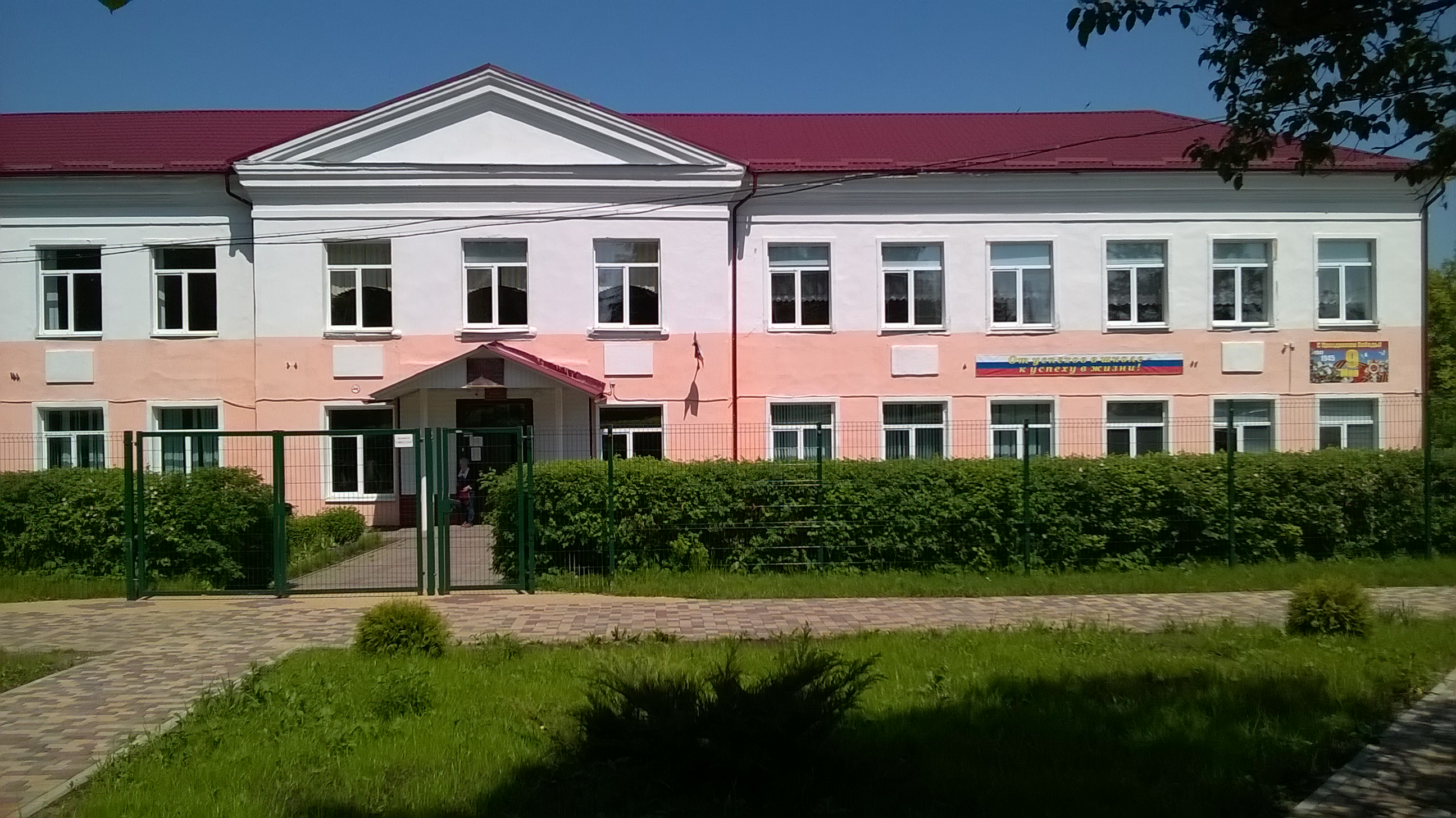 Средняя общеобразовательная школа №2 г. Сухиничи. В этом году все школы России имели ограничительный режим в связи с пандемией, но внешне всё выглядит обыденно. Фото 8 июня 2020